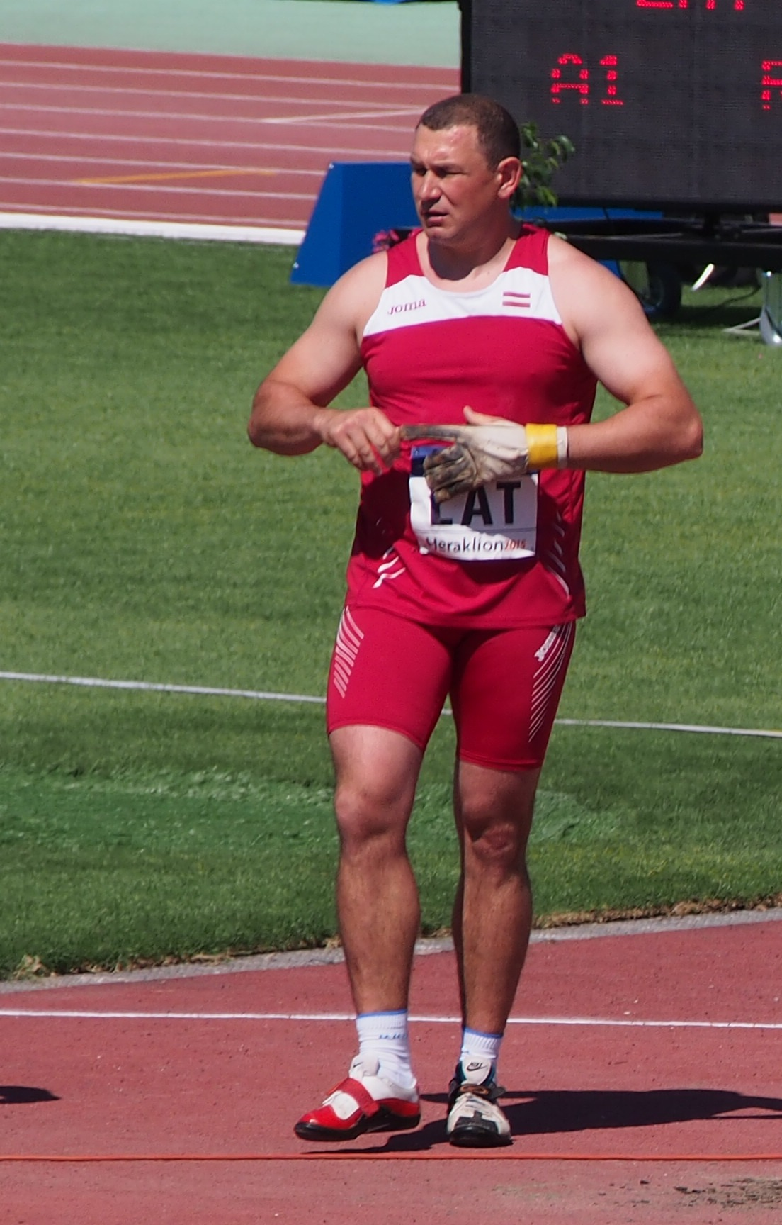 Igors Sokolovs during 2015 European Team Championship First League.